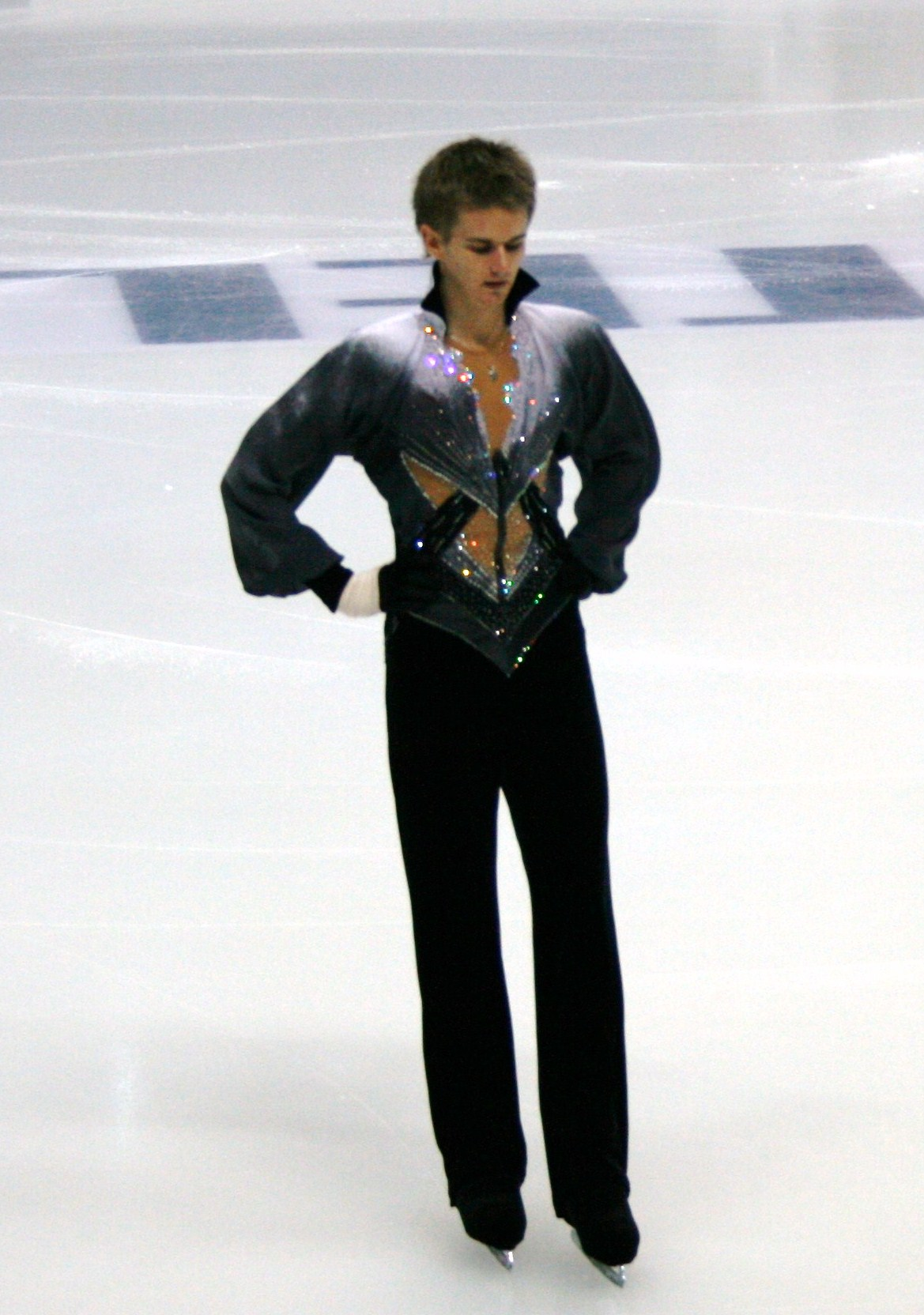 Ivan Tretiakov at the 2009 Rostelecom Cup